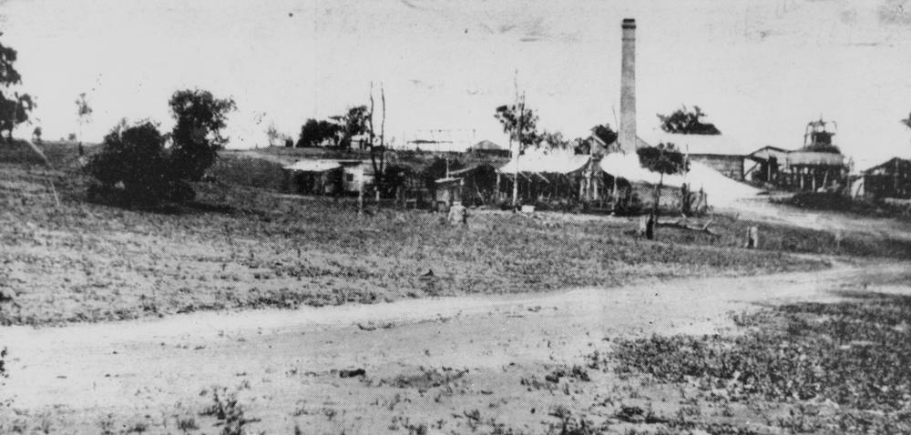 Battery and Mill at Mt Coolon Gold Mines This mine was first erected by Barclay and Co. then later owned by Mt. Coolon Gold Mines.